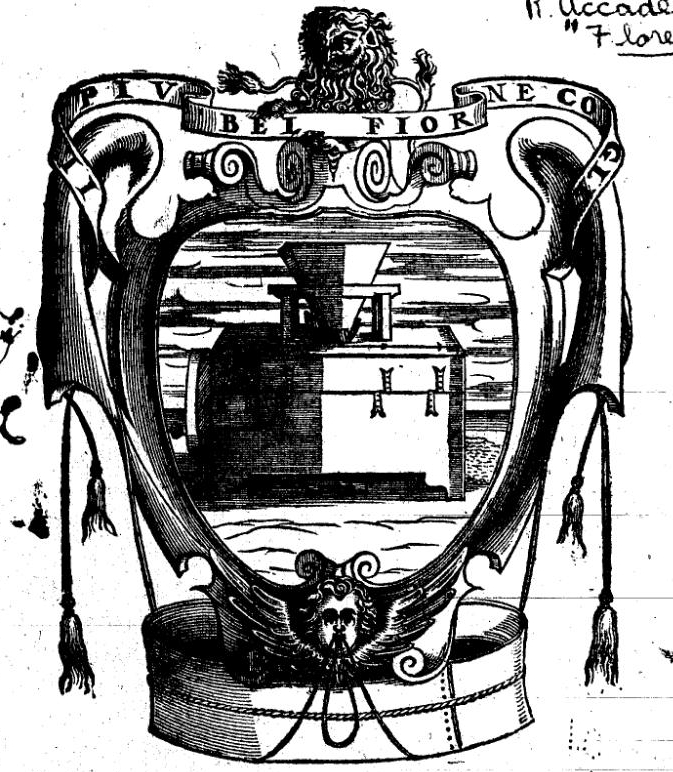 Image from the vocabulary of the Accademia della Crusca